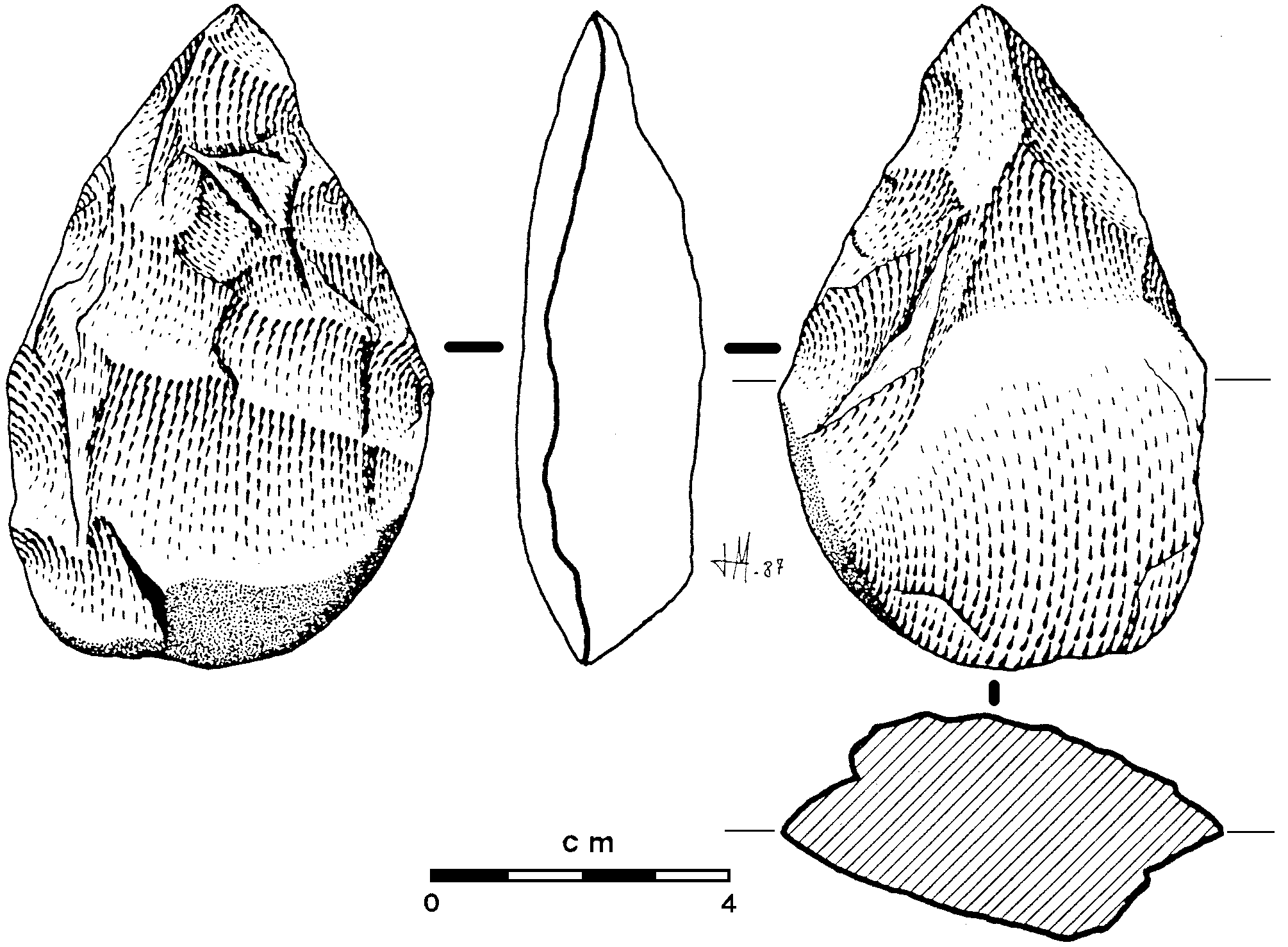 Handaxe knapped on a flake of quartzite, its comes from a fluvial quaternary terrace in Trabancos brook (Valladolid, Duero basin, Spain) and it is dated in Acheulean period (Lower Paleolithic)